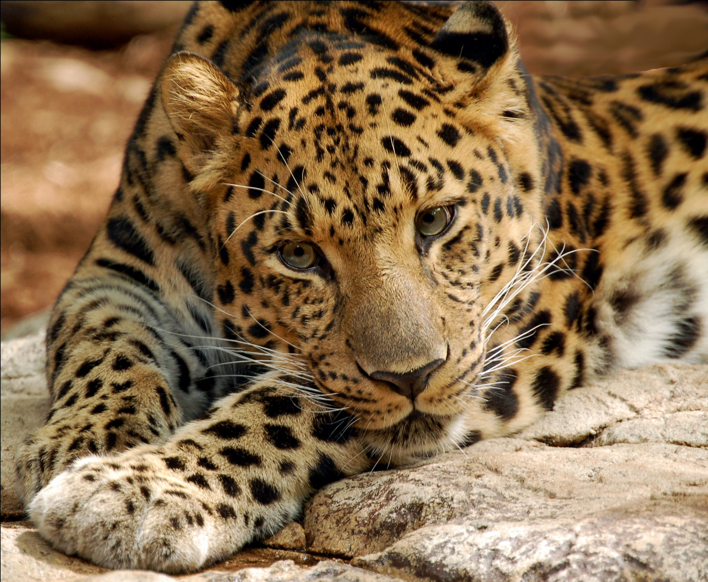 picture of Amur Leopard At the Audubon Zoo in New Orleans